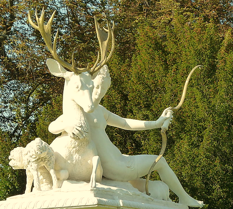 Château d'Anet, da immagine presente su commons.